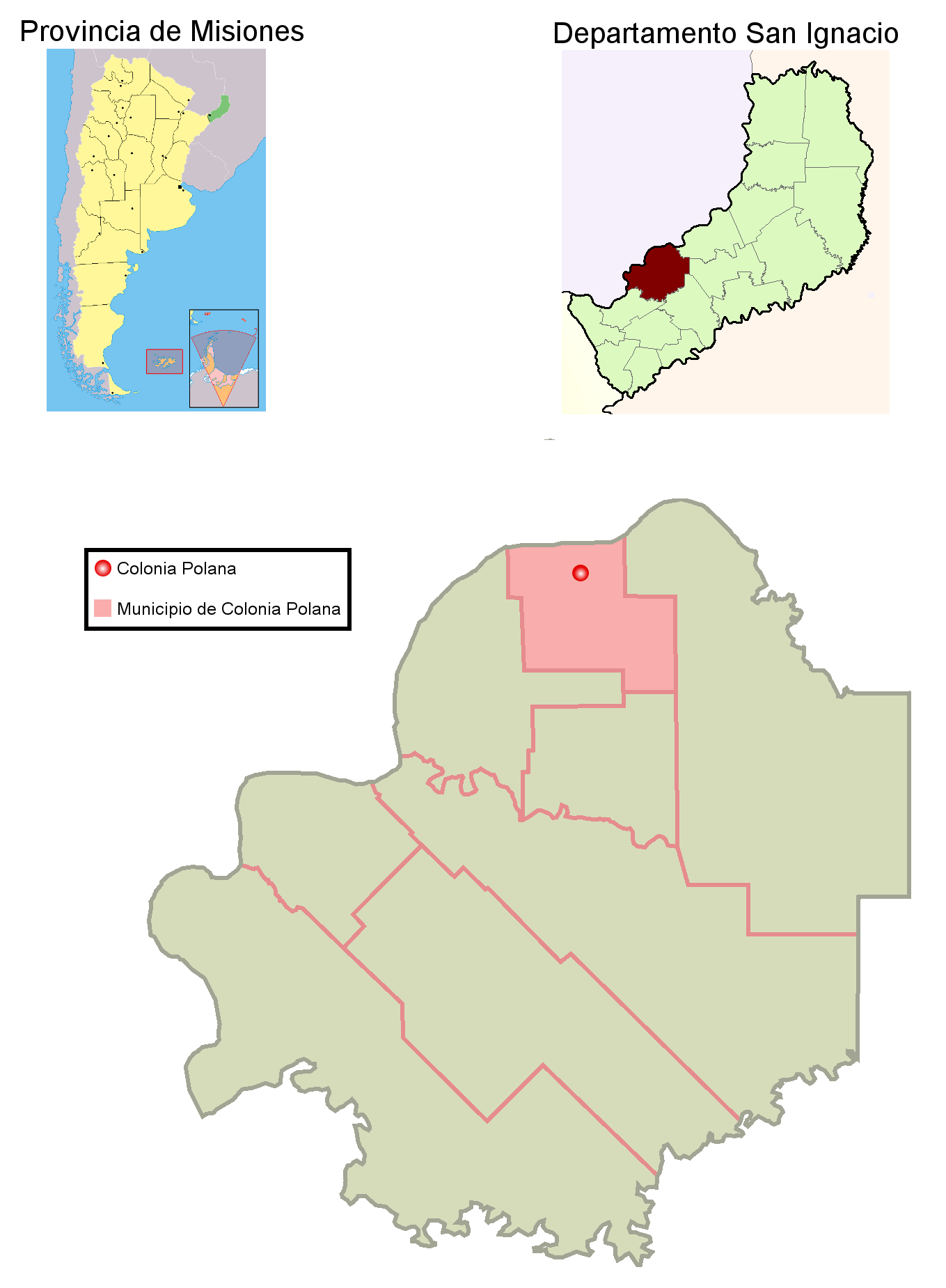 A map showing municipio of Colonia Polana in San Ignacio departament, Misiones province, Argentina. Also shows Colonia Polana town location. Created with GIMP.